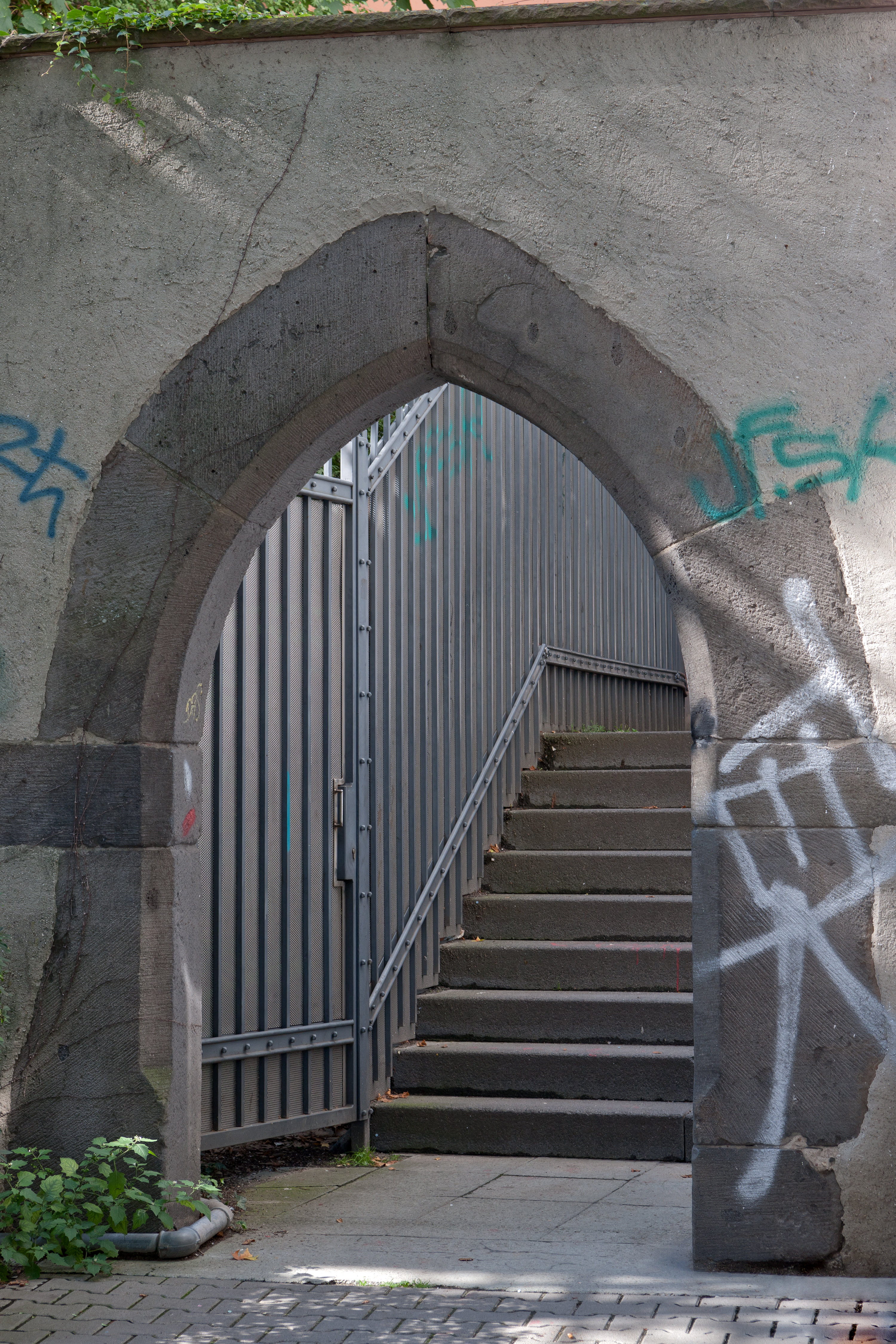 Frankfurt on the Main: Mainkai (Main Quay), Frauen- (Women) or Mainpförtchen (Main Wicket) as seen from the southeast